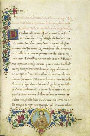 Illuminated manuscript by Ugolino Verino titled Vita di Santa Chiara vergine. The text is in Italian. It was once owned by the 5th Baron Vernon - a Dante enthusiast